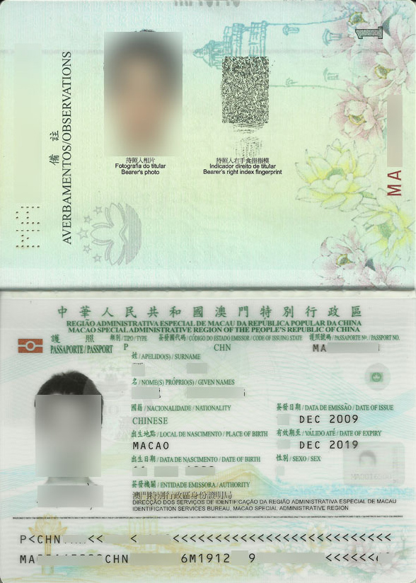 Observation and Identification Pages of the Macau ePassport